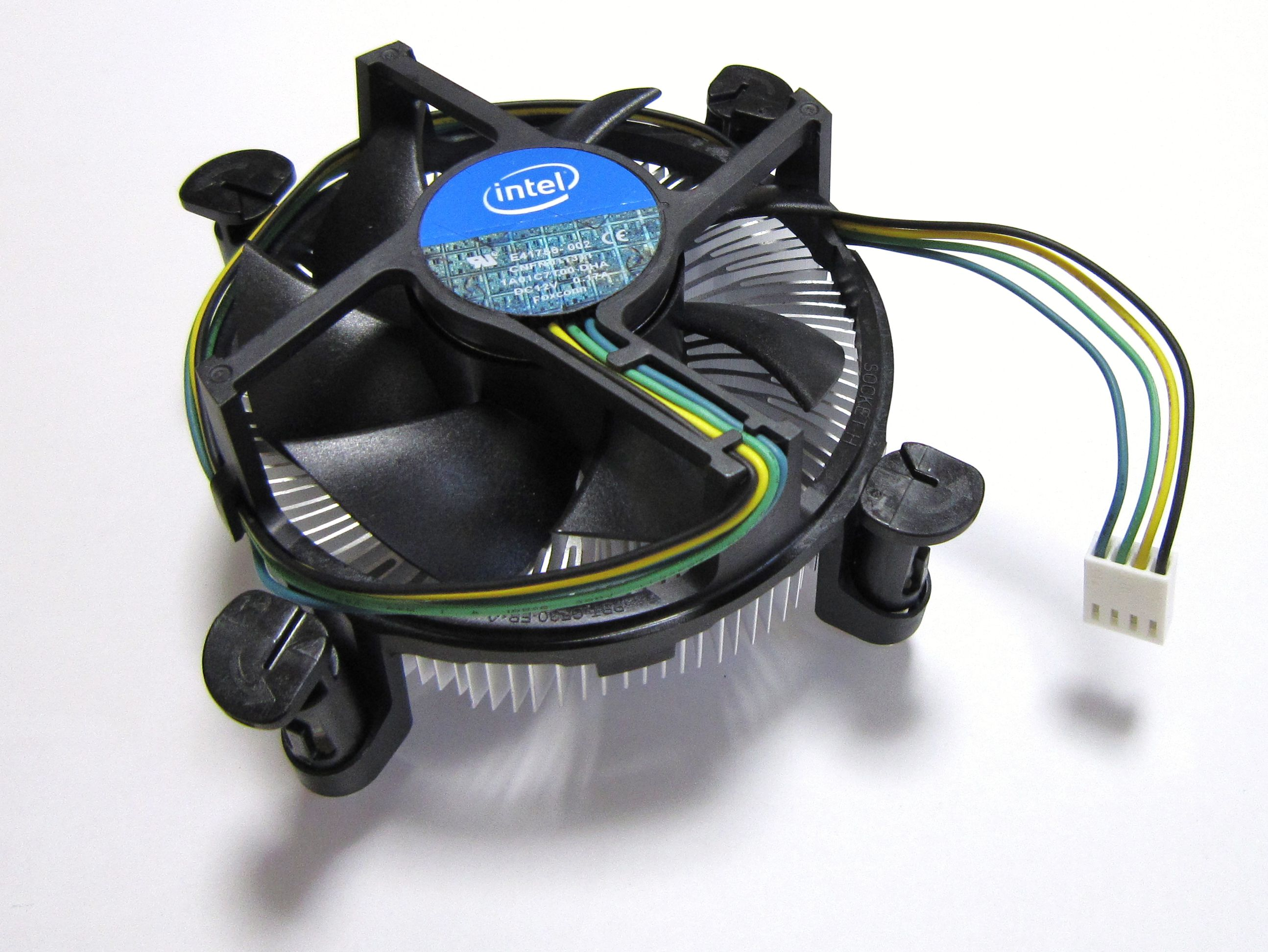 Intel Reference Heatsink RCFH7-1156 (DHA-A) for LGA 1156 CPU with thermal design power of 95W.